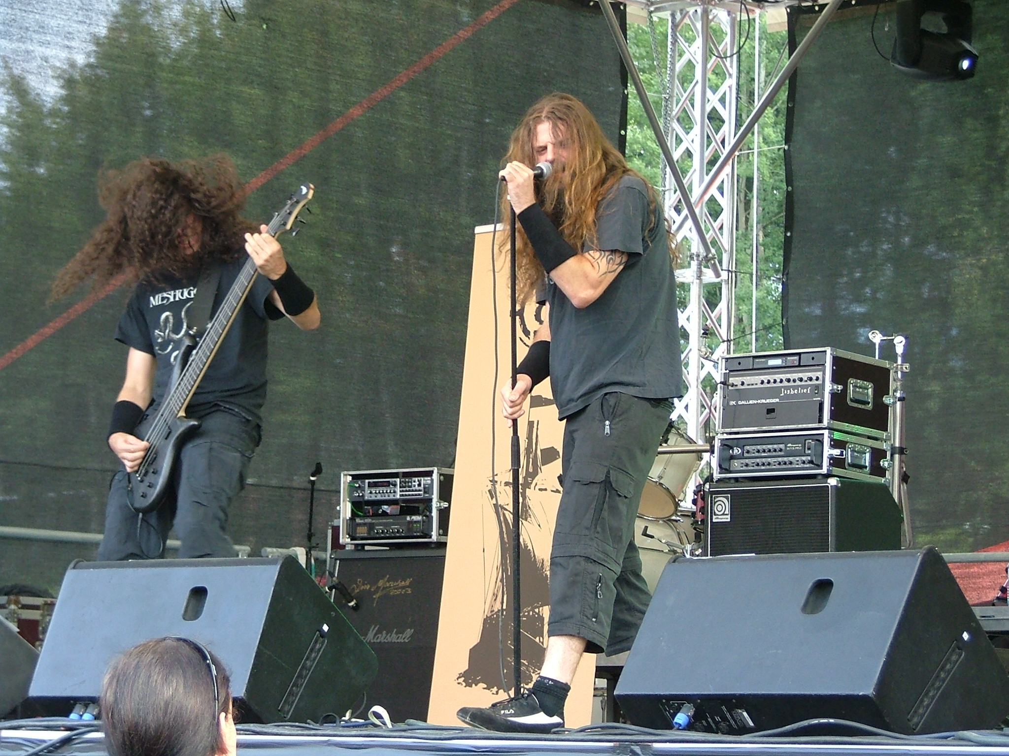 German death metal band disbelief at 'Rock the Lake' in Finkenstein am Faaker See